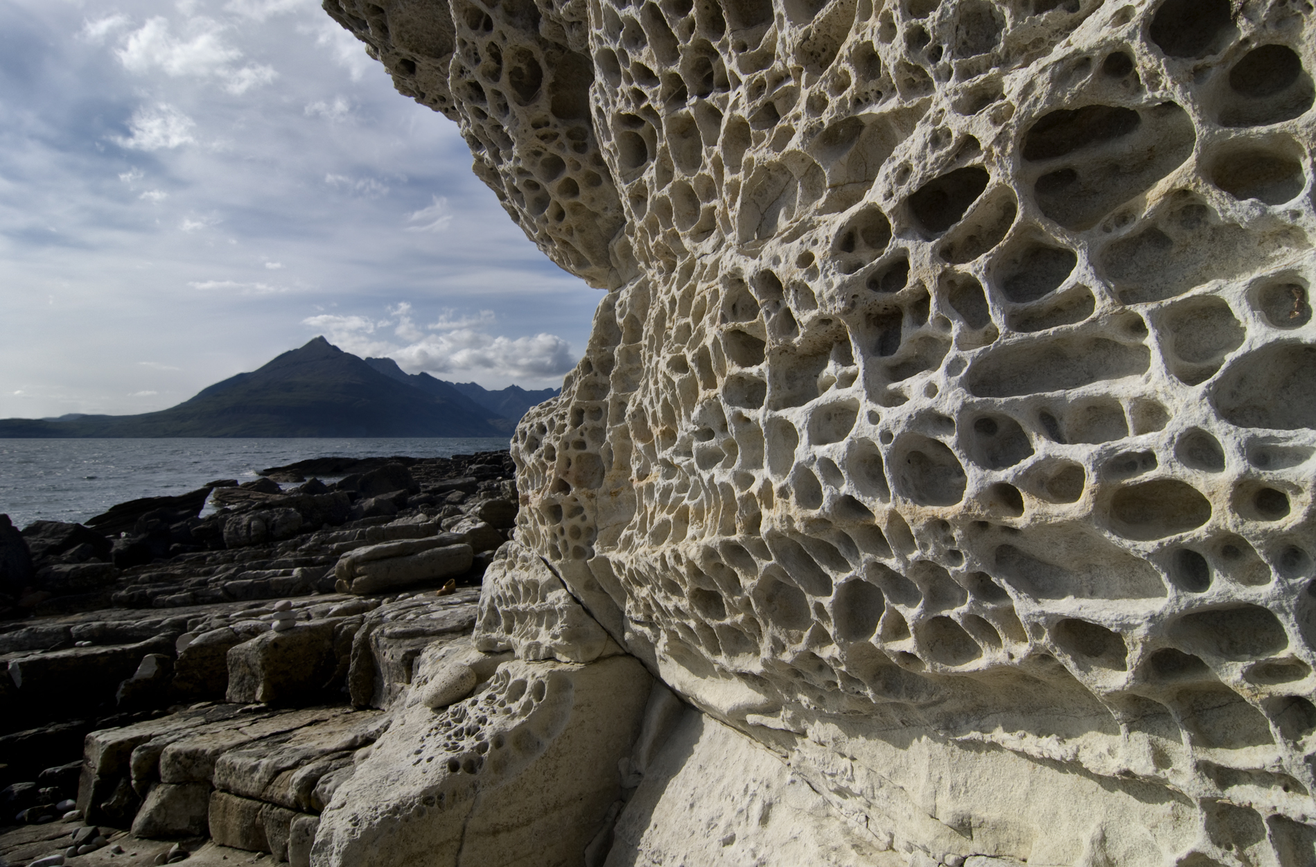 Martin Sharman (2009)